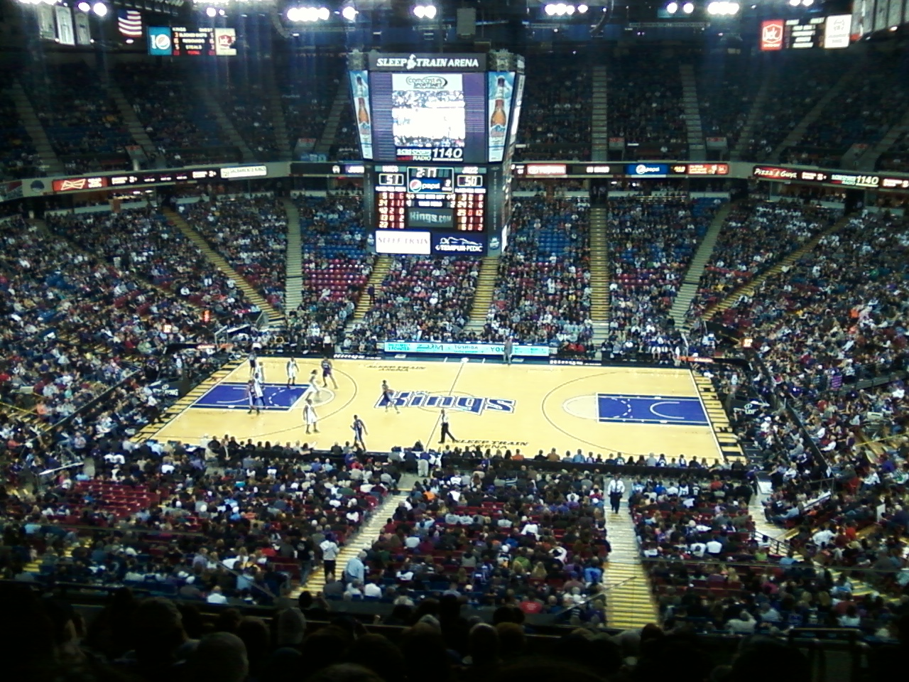 Inside of Sleep Train during Kings-Jazz game on February 9th, 2013